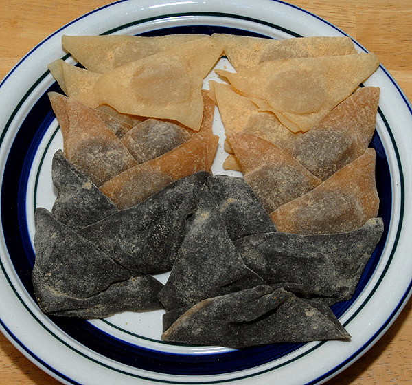 An assortment of prepared yatsuhashi on a dish. Flavors, from top to bottom: tofu, cinnamon, sesame. The latter two are wrapped around red bean paste.